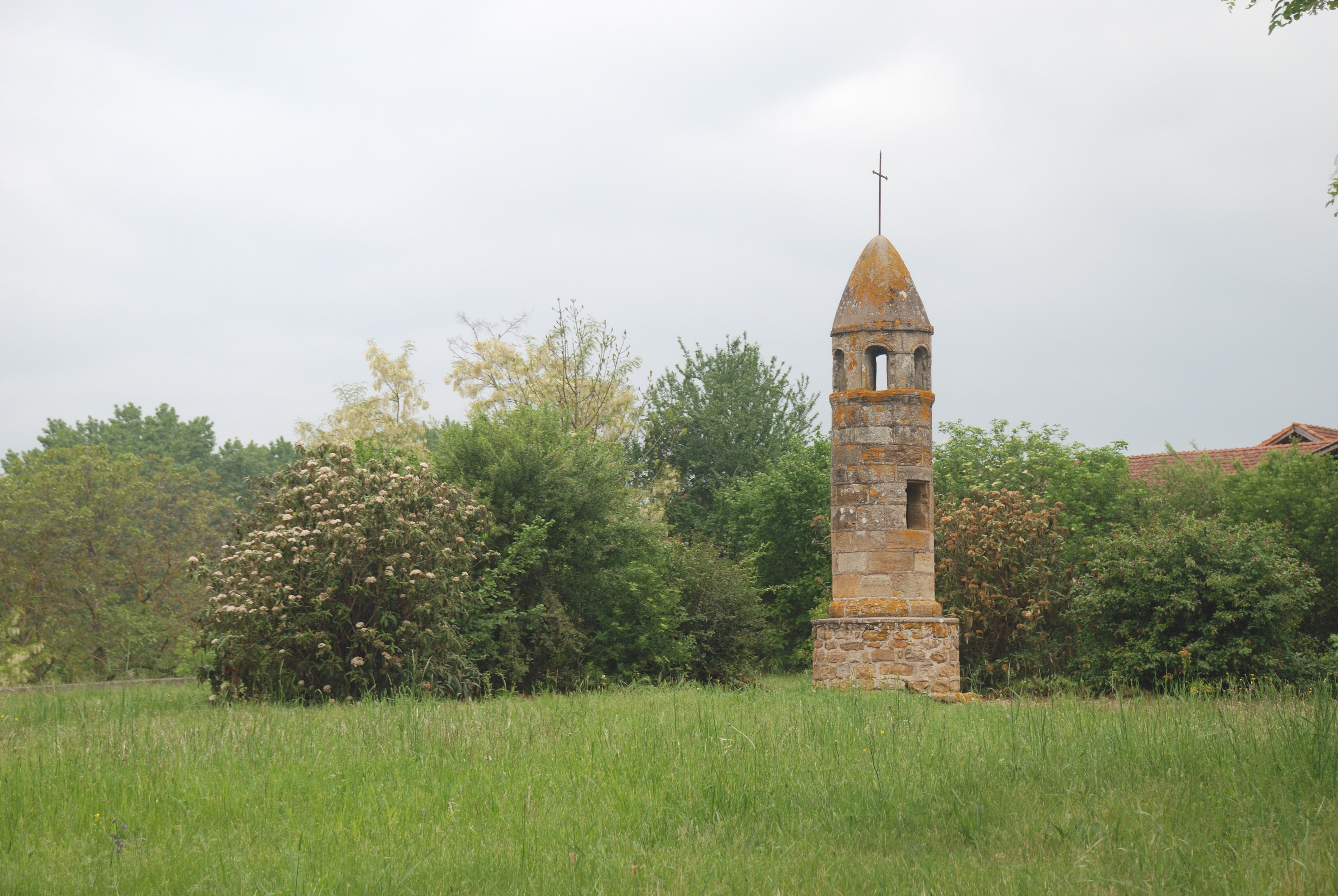 Culhat : Lanterns of the Dead, Puy-de-Dôme, France).